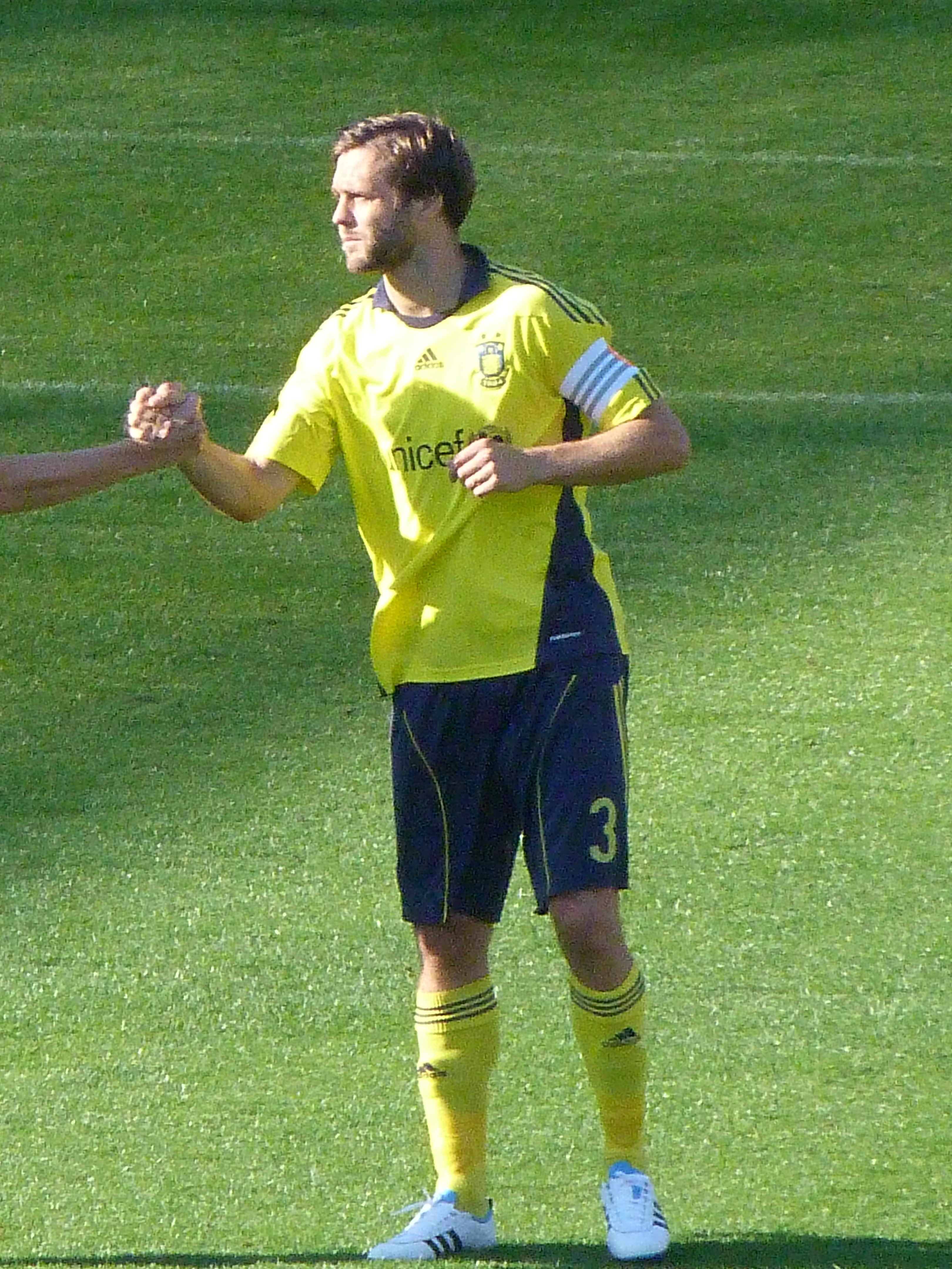 Max von Schlebrügge as Player from Bröndby IF